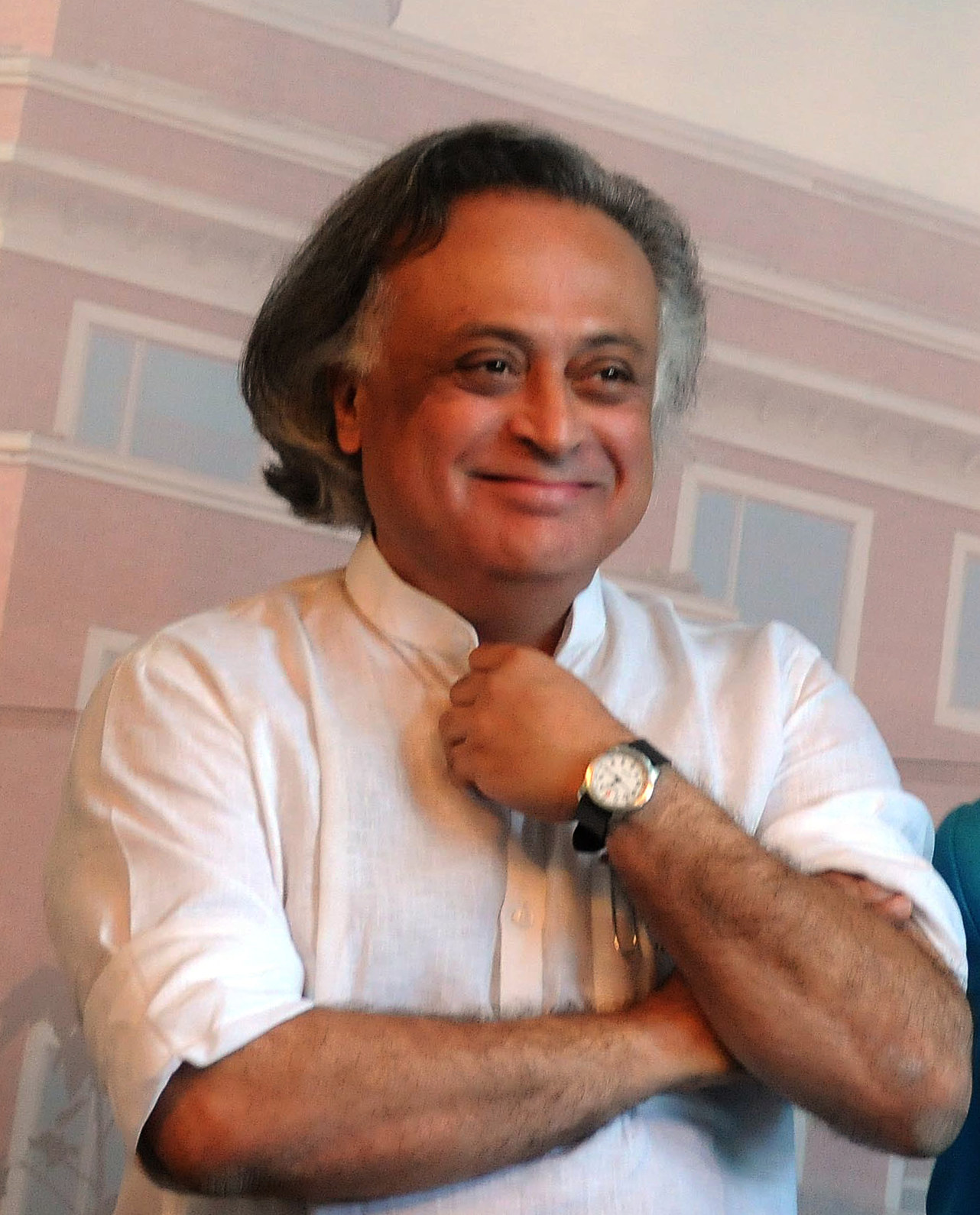 U.S. Secretary of State Hillary Rodham Clinton at the ITC Green Centre in Gurgaon, outside of New Delhi. The ITC Green Centre is the world's largest "Platinum Rated" green office building. [State Department photo]